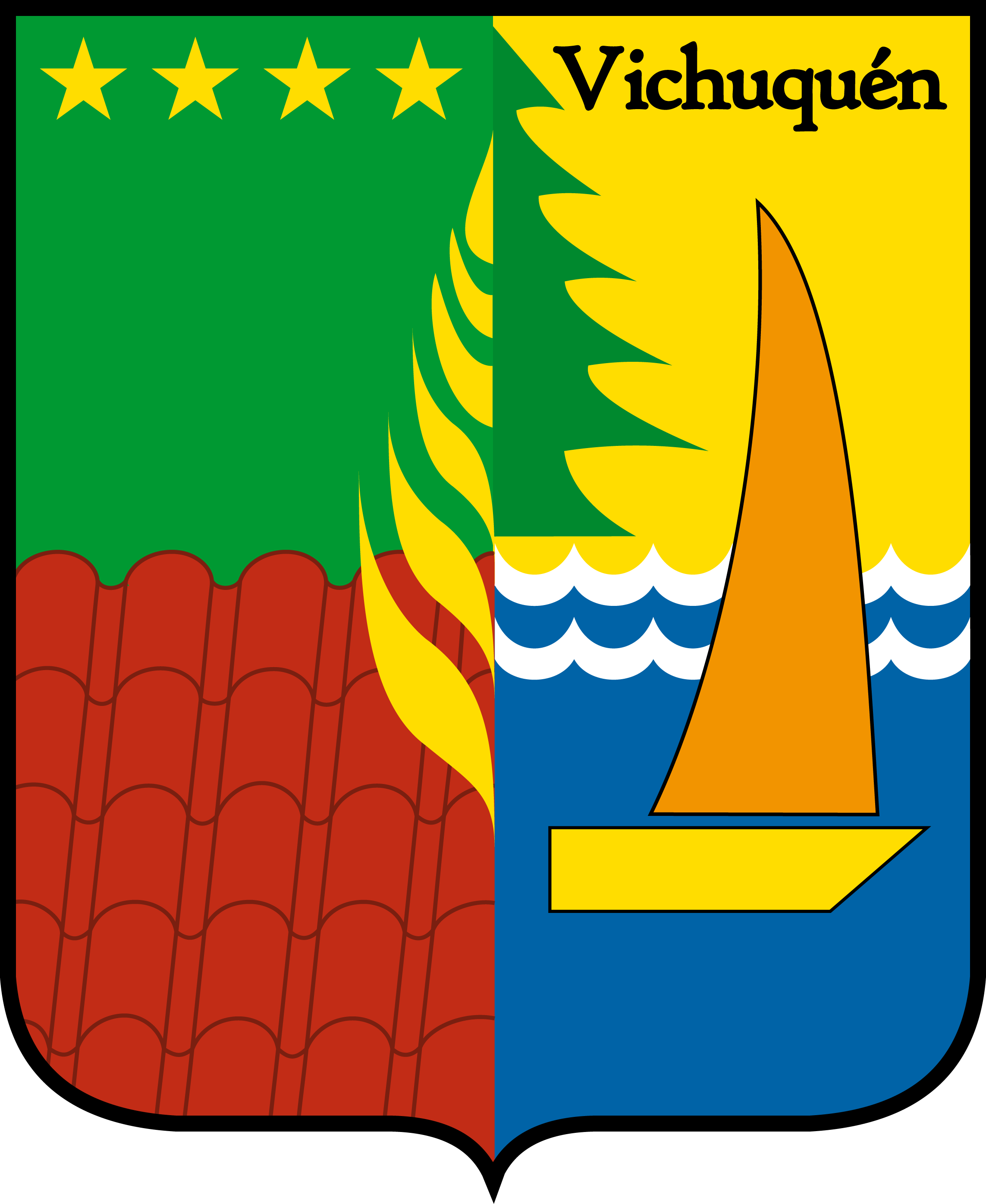 Coat of arms of Vichuquen commune, in Chile